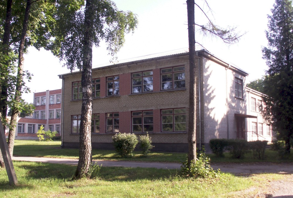 School in Bubiai, Šiauliai district, Lithuania